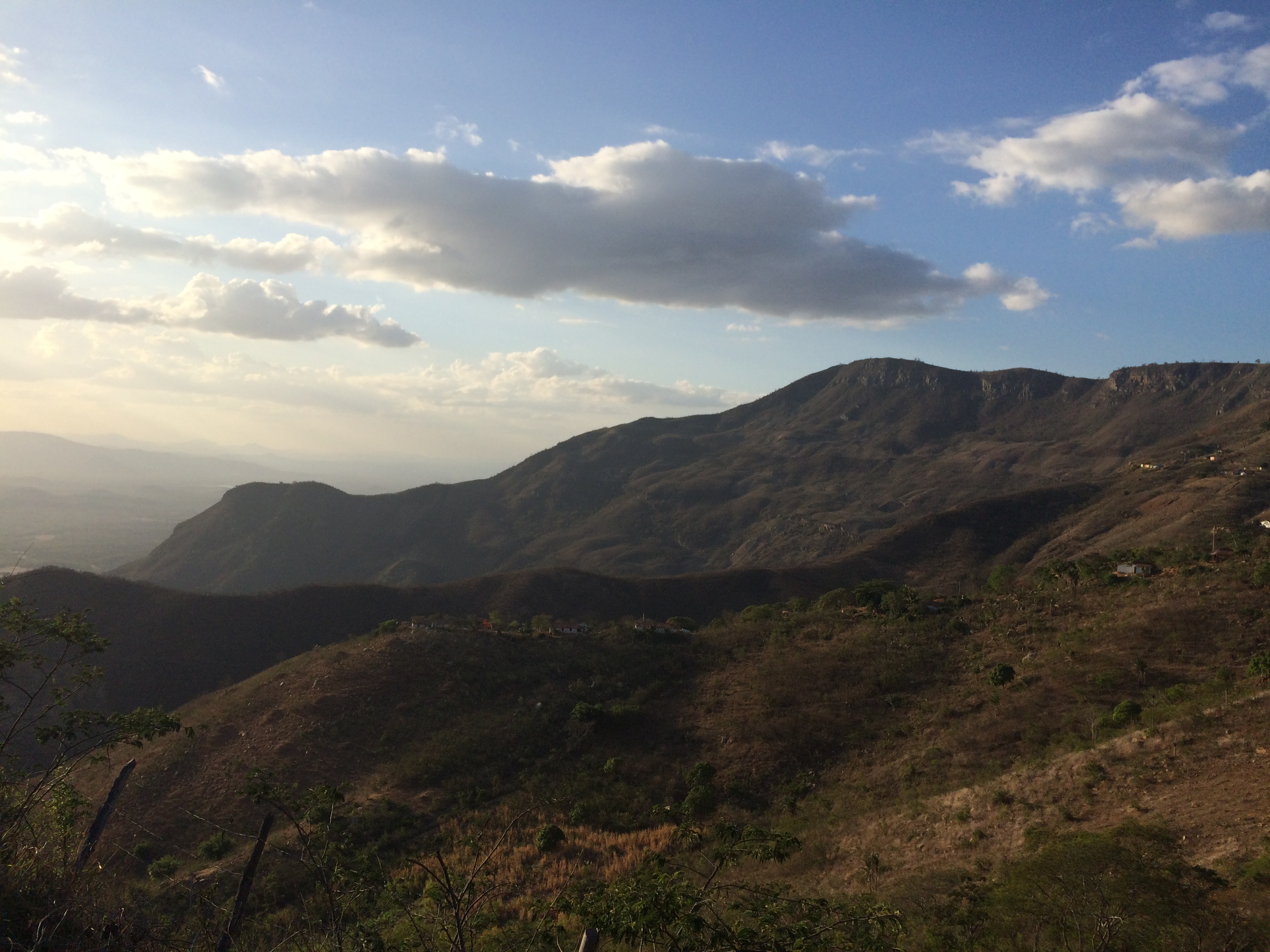 redencao ce